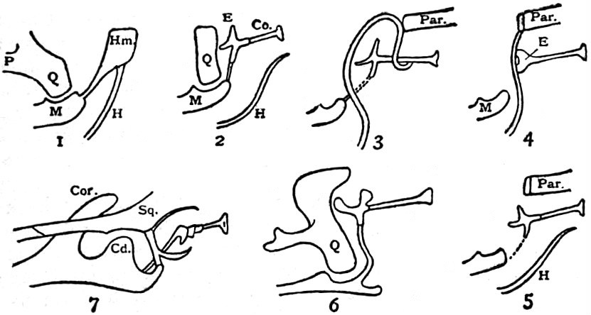 Diagram showing Evolution of the Ossicular Chain of the Ear. 1. Hyostylic Elasmobranch. H, hyoid; Hm, hyomandible; M, mandible; P Q, palatoquadrate. 2. Lacertilian. Co, columella or stapes; and E, extra-columella with supra-, extra- and infra- “stapedial” processes. 3. Hypothetic stage between 2 and 4. Sphenodon. Par = parotic bone. 5. Lacertilian. Parotic process with a piece of cartilage at its end, remnant of piece of the hyoid; connexion of intra-stapedial process with mandible vanishing. 6. Embryo of Crocodile. Continuous cartilaginous connexion of extra-columella with Meckel's cartilage. 7. Embryonic Mammal; for comparison. Cd, the new condyle, articulating with Sq, squamosal; Cor, coronoid process; quadrate transforming into tympanic ring.